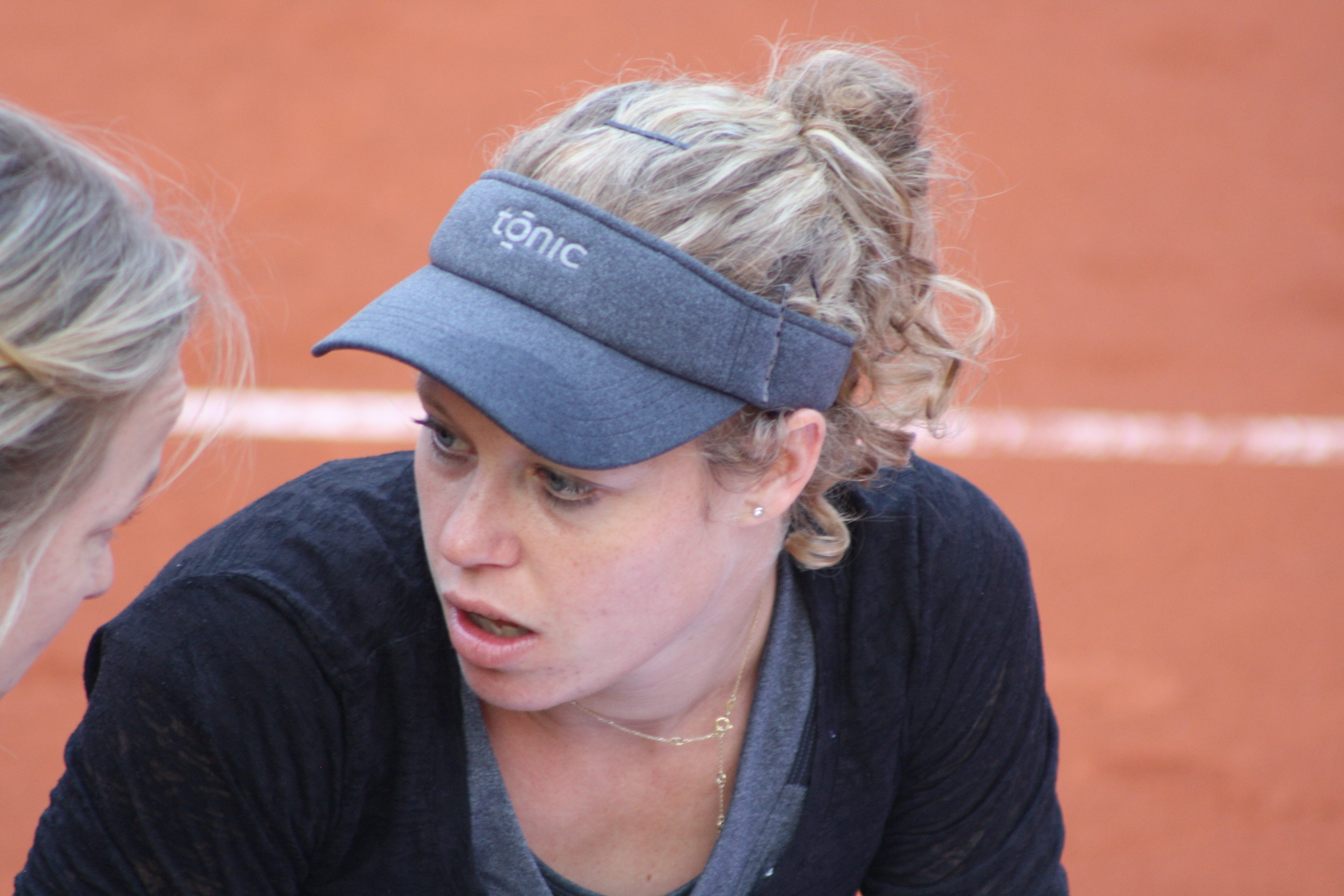 Laura Siegemund, May 2016